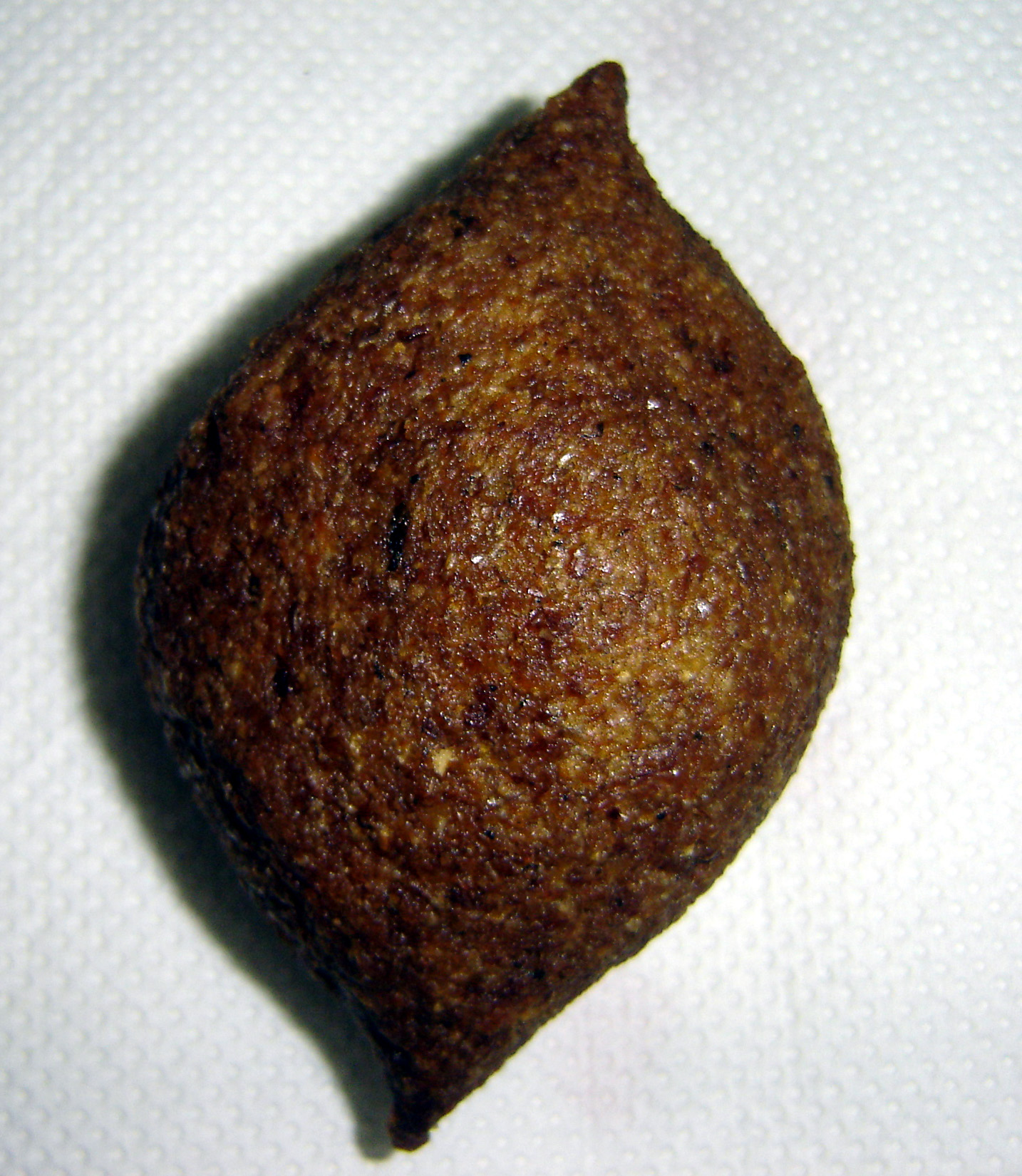 Kibbeh (also known as quibe, kibe or kipe)